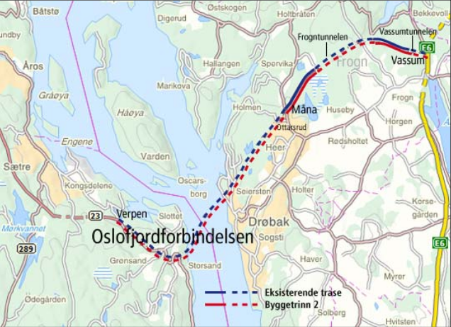 Phase 2 of the Oslofjord Tunnel. Blue line denotes existing tunnel, red line proposed tunnel. Also includes new motorway from the tunnel at Måna to the E6 at Vassum.